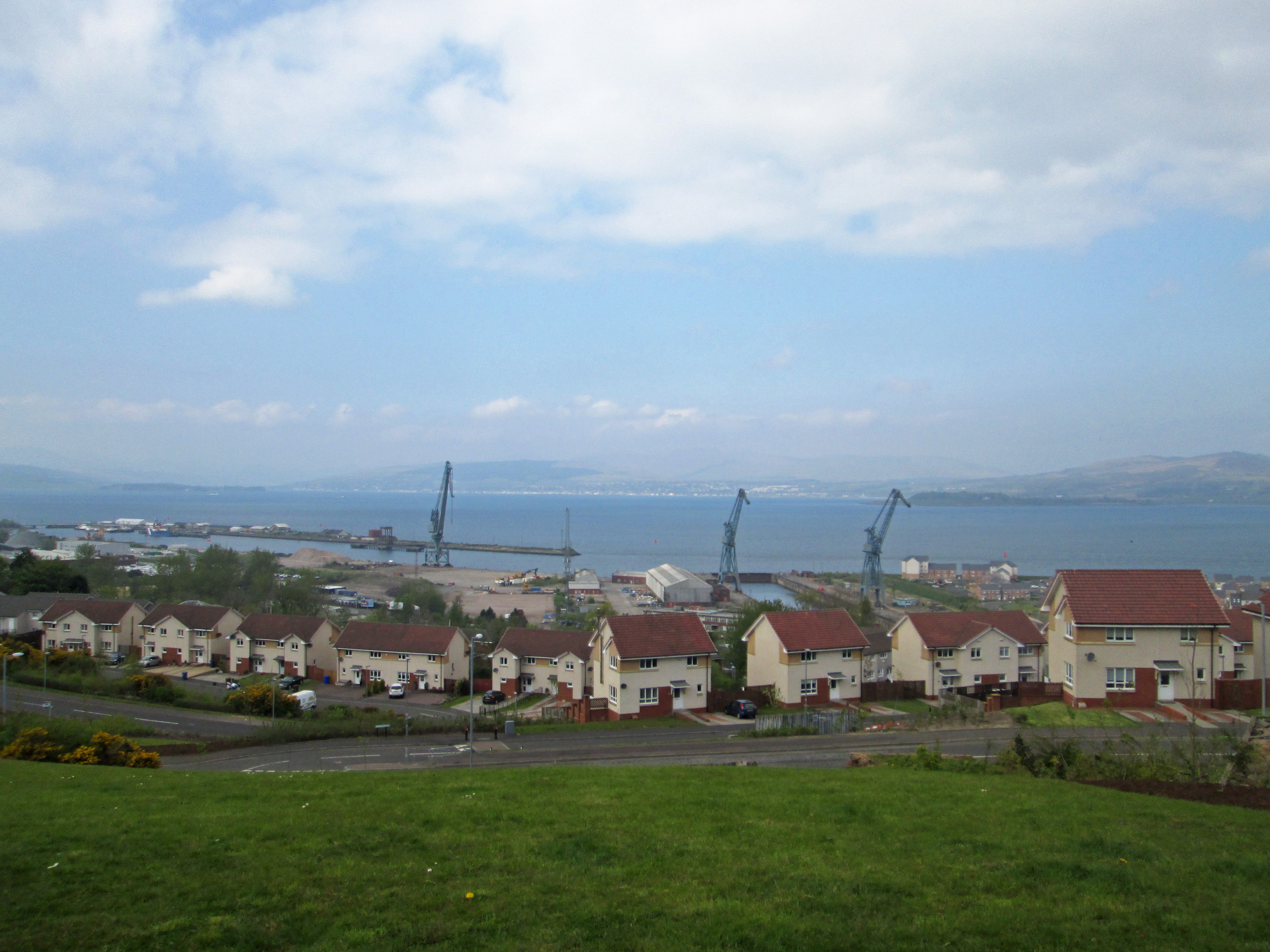 View looking north over the Inchgreen Drydock in Greenock, a dry dock and repair quay owned by The Peel Group Peel Ports Clydeport, and operated by Cammell Laird shipbuilders on a project basis. The dry dock to the right is 305m long by 45m wide, the repair quay to its left is 390m long with a minimum depth of 7.5m, and faces onto the Greenock Great Harbour.Inchgreen Drydock. Cammell Laird (10 October 2015). Retrieved on 11 May 2017. On 1 May 2017 Clydeport confirmed that the cranes were to be demolished: the photograph taken on 2 May shows one crane relocated from the dry dock to the repair quay.End of an era as cranes set to be flattened at Inchgreen. Greenock Telegraph (1 May 2017). Retrieved on 11 May 2017.